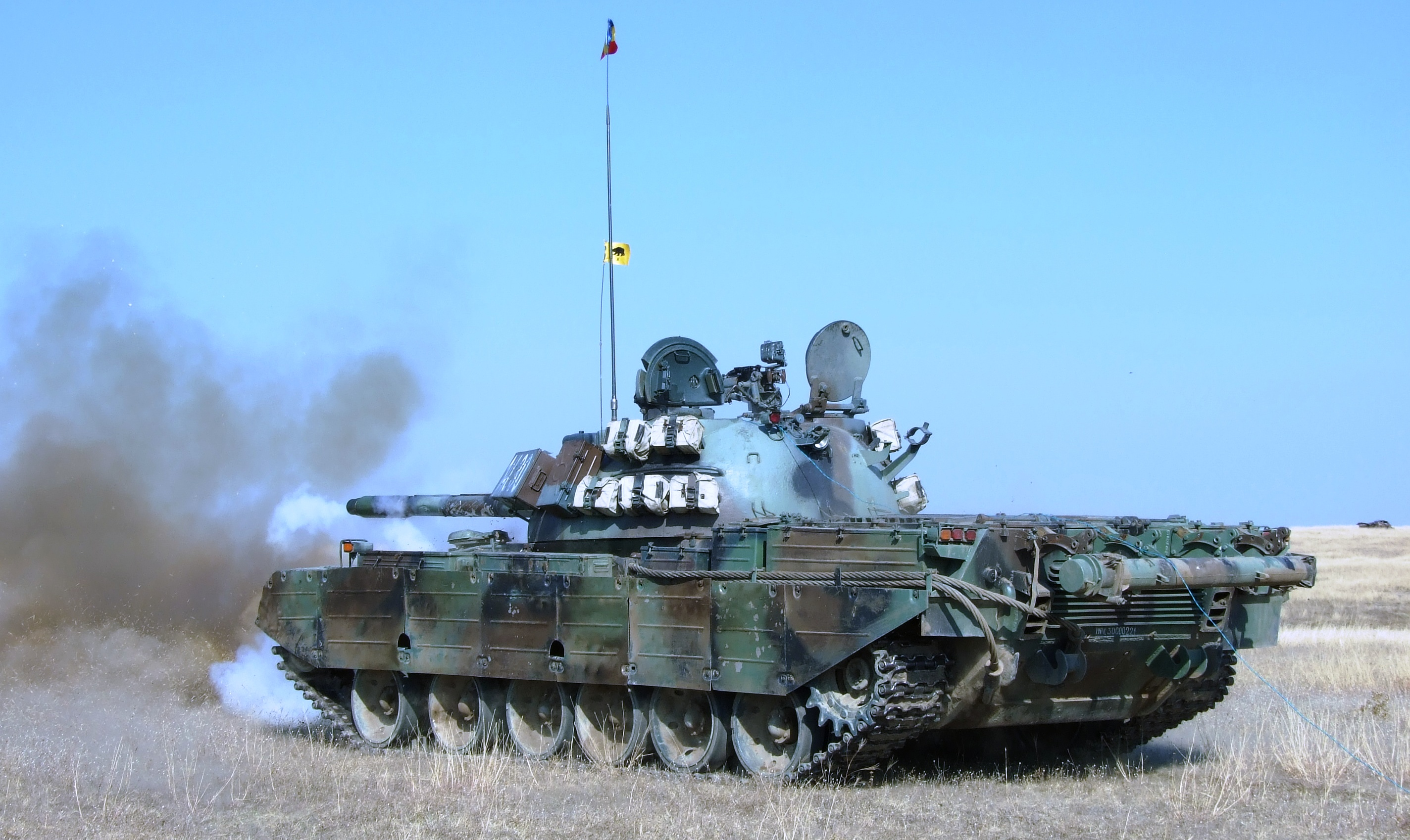 TR-85 tank of the 15th Mechanized Brigade during training.